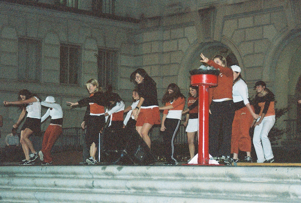 UT dance girls at the Texas Hex Rally, 2006.